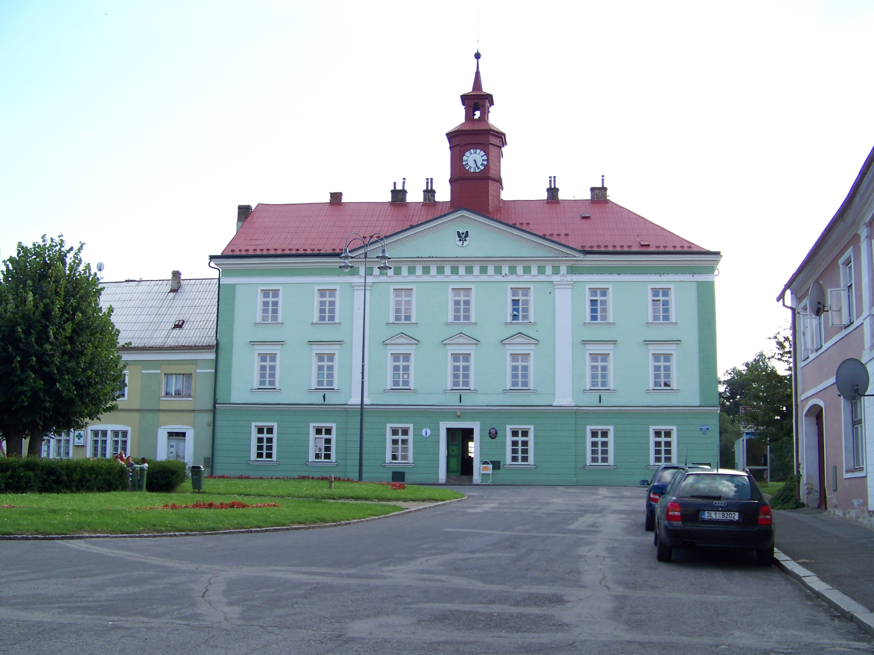 Dubá, Česká Lípa District, Liberec Region, the Czech Republic. Masaryk's Square, a town hall.